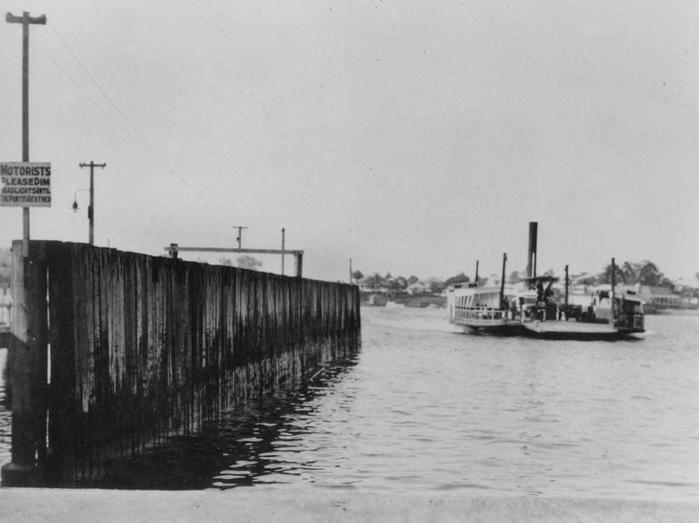 Bulimba vehicular ferry on the Brisbane River, 1929. This ferry connected Teneriffe on the Brisbane River with the suburb of Bulimba, on the southern bank of the Brisbane River. People went to work by ferry. The ferry pictured is possibly the Heatherington.